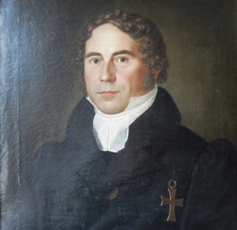 F.A. Westphal in the year 1829, Abbot of the monastery of Koenigslutter, Duchy of Brunswig